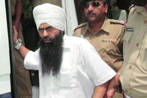 davinderpal singh bhullar